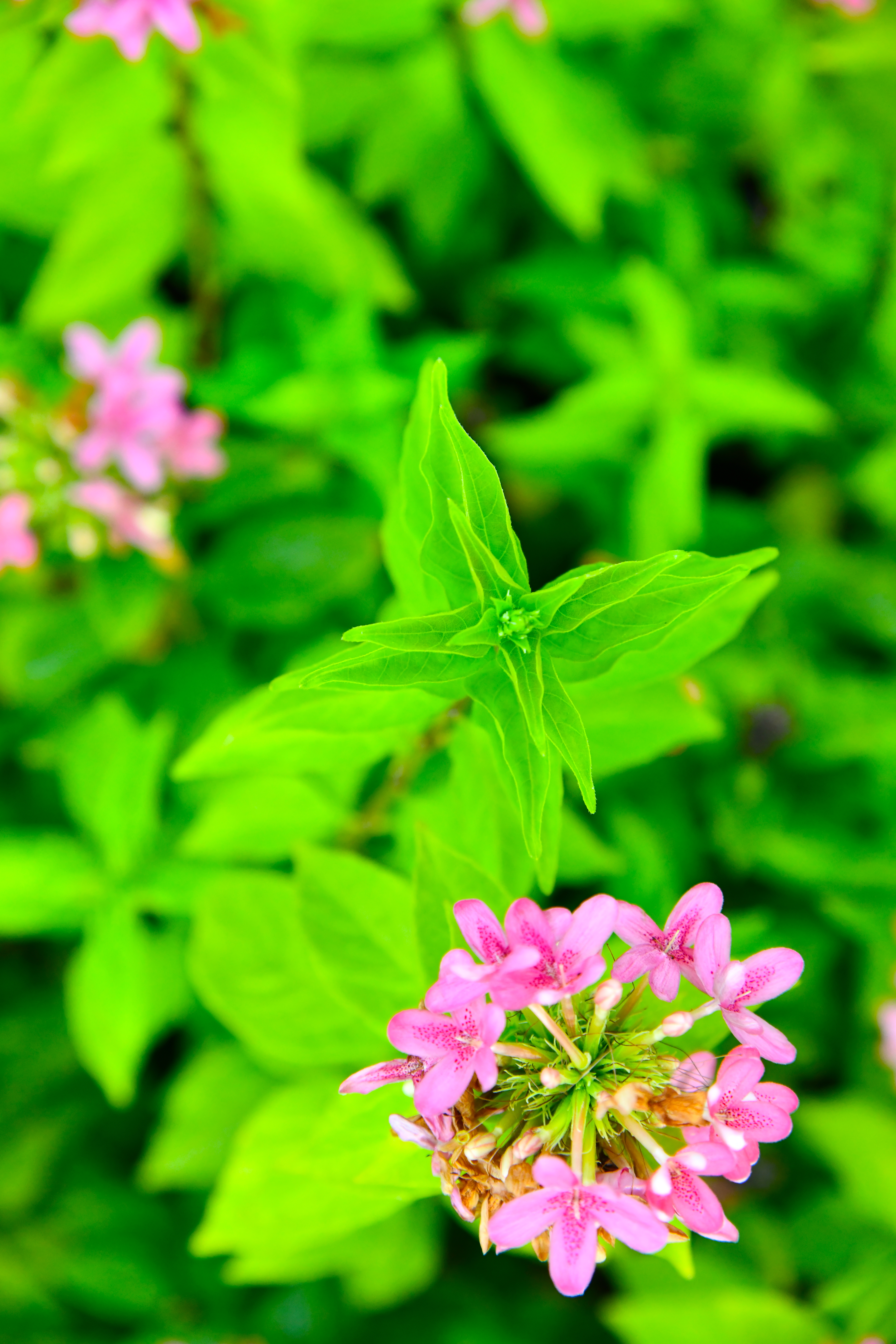 อุทยานแห่งชาติภูลังกา